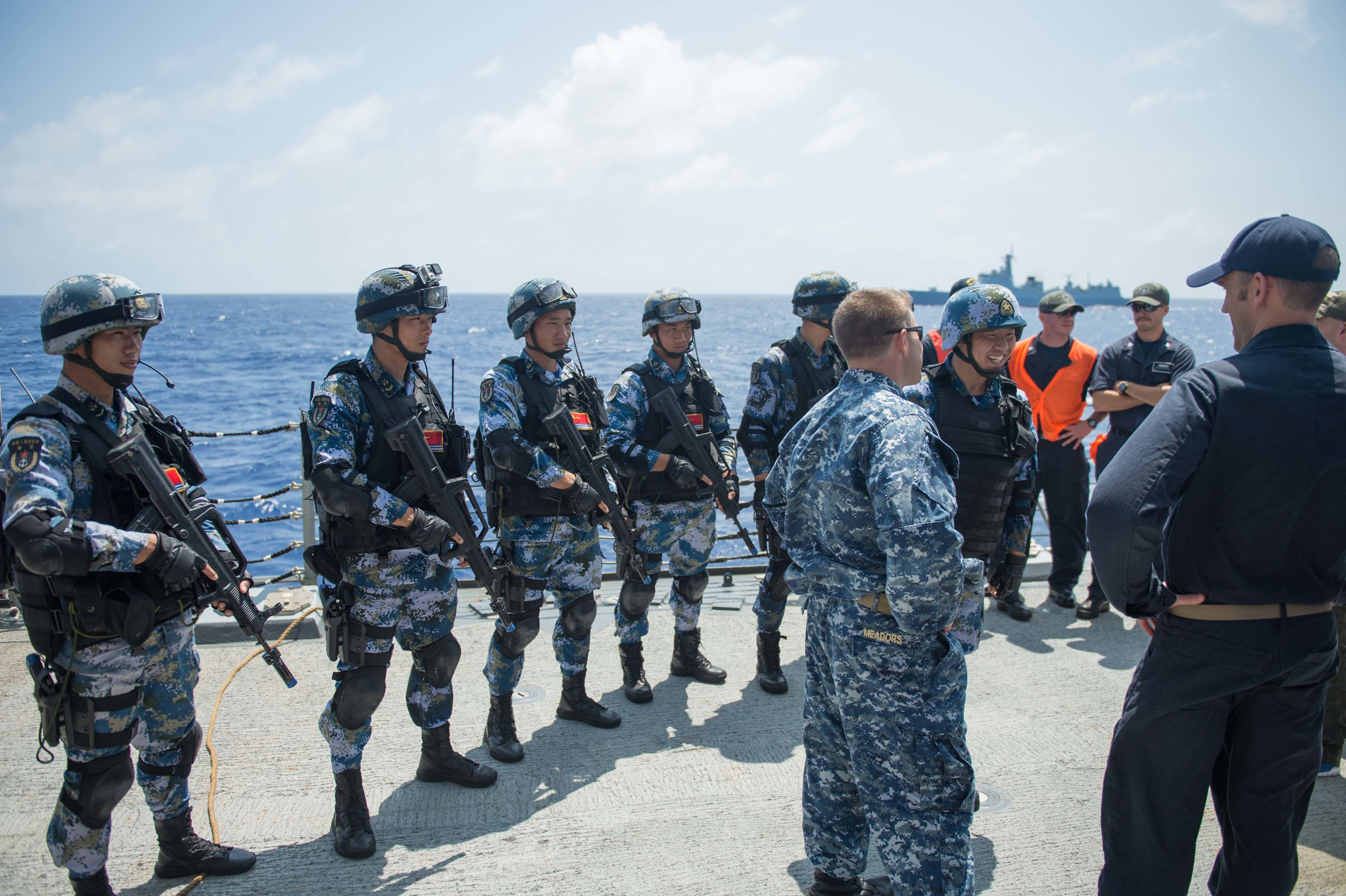 PACIFIC OCEAN (July 20, 2016) - Sailors from the guided-missile destroyer USS Stockdale (DDG 106) talk with Chinese navy sailors from the guided-missile destroyer Xian (153) after a VBSS (Visit, board, search, and seizure) exercise for Rim of the Pacific 2016. Twenty-six nations, 40 ships and submarines, more than 200 aircraft and 25,000 personnel are participating in RIMPAC from June 30 to Aug. 4, in and around the Hawaiian Islands and Southern California. The world's largest international maritime exercise, RIMPAC provides a unique training opportunity that helps participants foster and sustain the cooperative relationships that are critical to ensuring the safety of sea lanes and security on the world's oceans. RIMPAC 2016 is the 25th exercise in the series that began in 1971. (U.S. Navy photo by Mass Communication Specialist 3rd Class David A. Cox/Released) Unit: DVIDS Hub DVIDS Tags: San Diego; Board; Search and Seizure; VBSS; Underway; Pacific Ocean; Chinese; guided-missile destroyer; NPASE; Sea and Anchor; Navy; Sailors; USS Stockdale; (DDG 106); Training; David Cox; RIMPAC; Rim of the Pacific; People's Republic of China; MC3; Visit; 3rd Fleet AOR; Great Green Fleet; AW-GC-DA